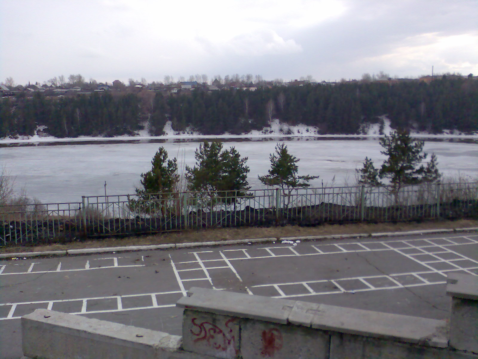 Kamenka river